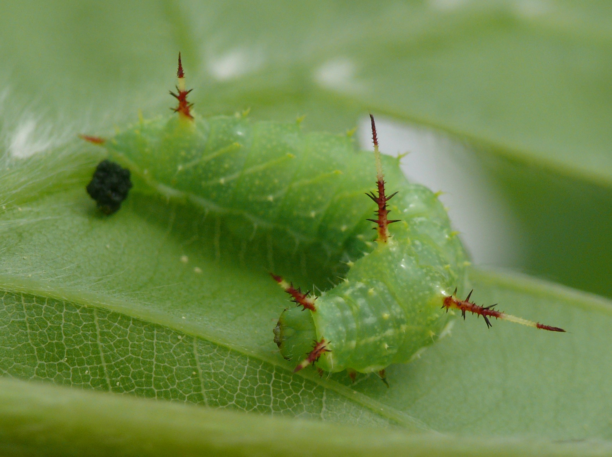 Caterpillar of Tau Emperor (Aglia tau) in second instar (L2).